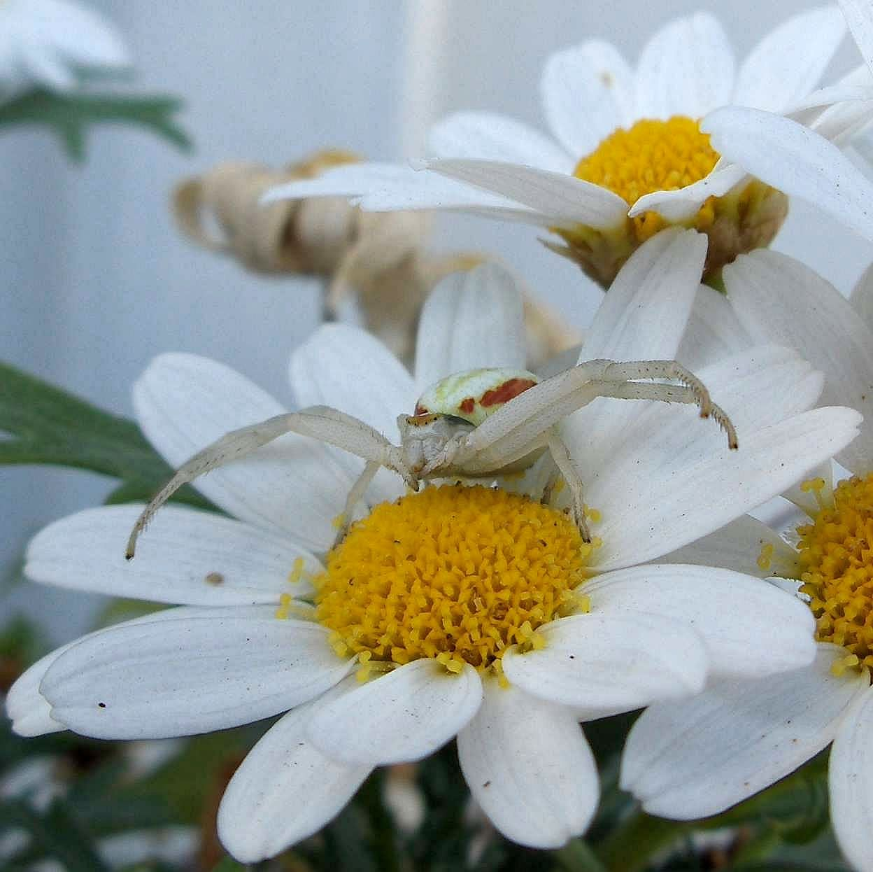 Female Misumena vatia